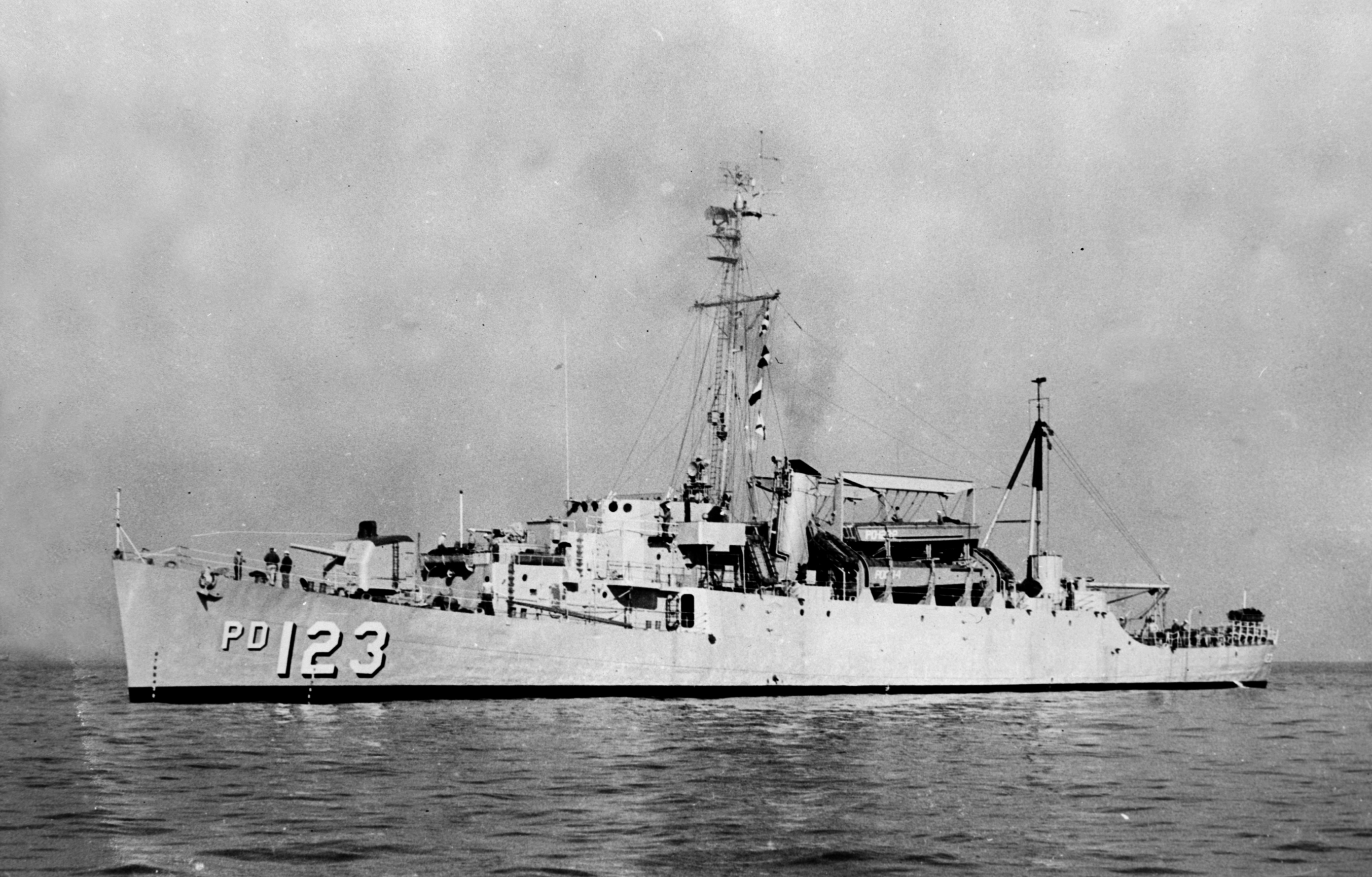 The U.S. Navy high-speed transport USS Diachenko (APD-123) off the San Francisco Naval Shipyard, California (USA), on 31 January 1956, followign a regular overhaul.